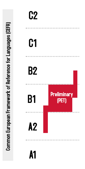 Comparison between the exam Cambridge